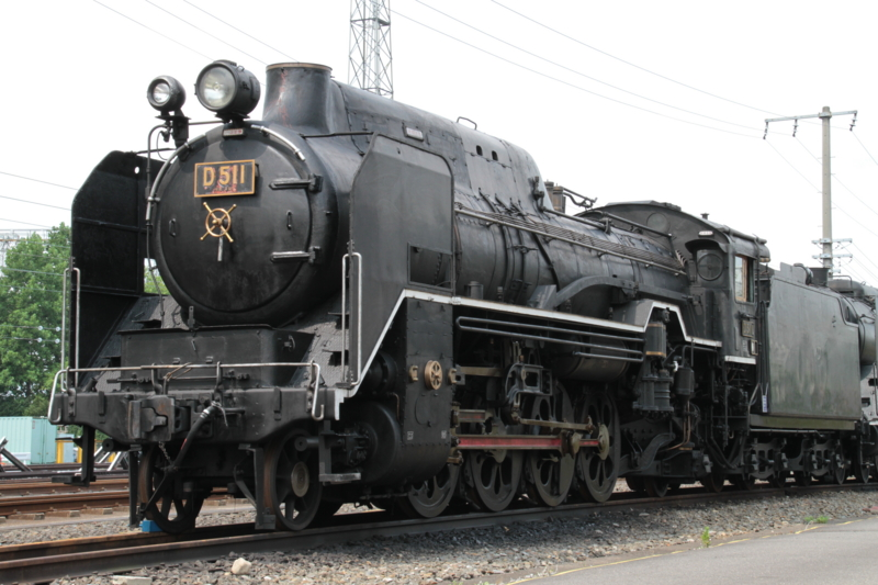 D51 1 at Umekōji.